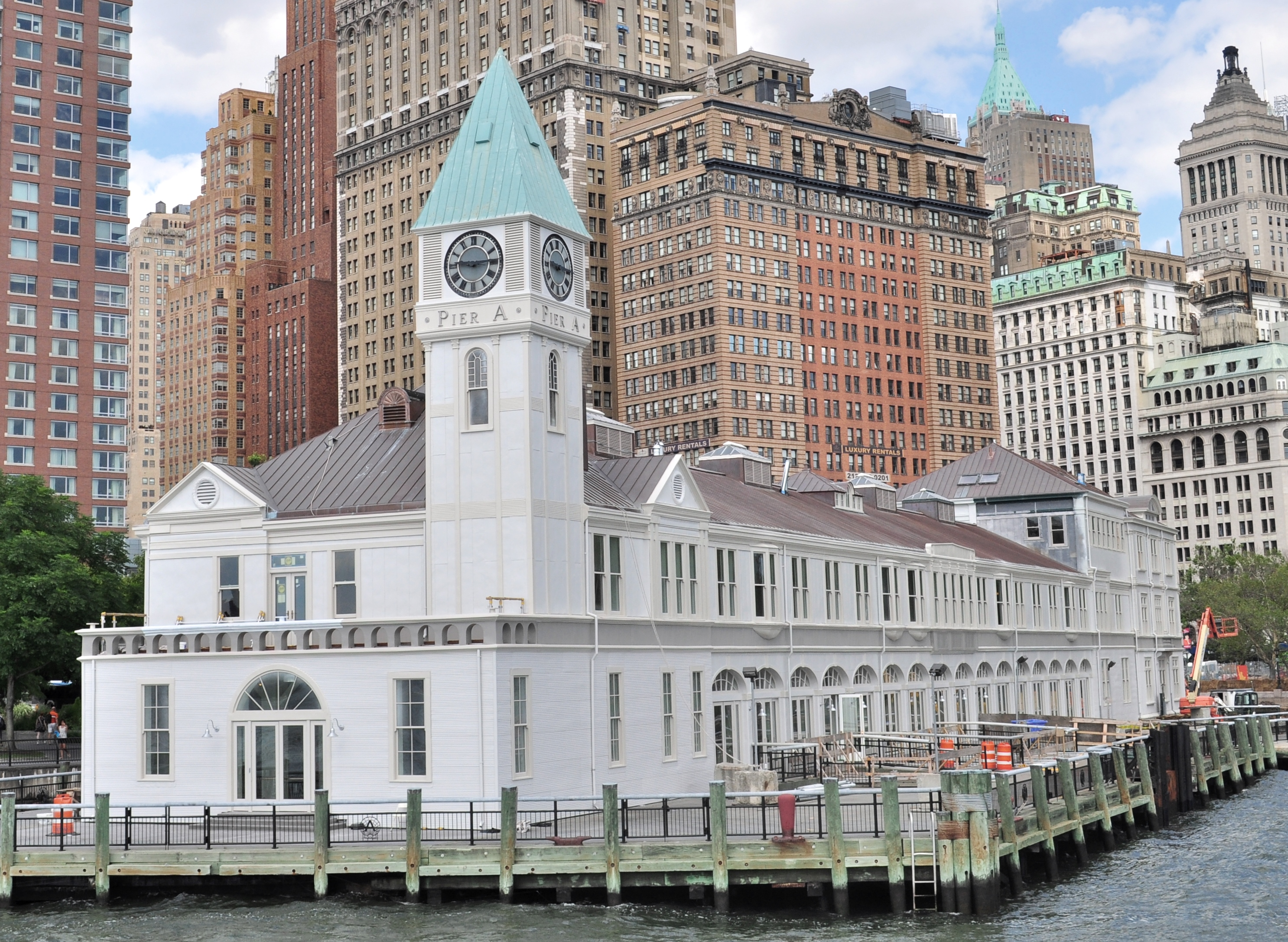 City Pier A seen from New York Water Taxi pulling into the pier at Battery Park, Lower Manhattan, New York City.